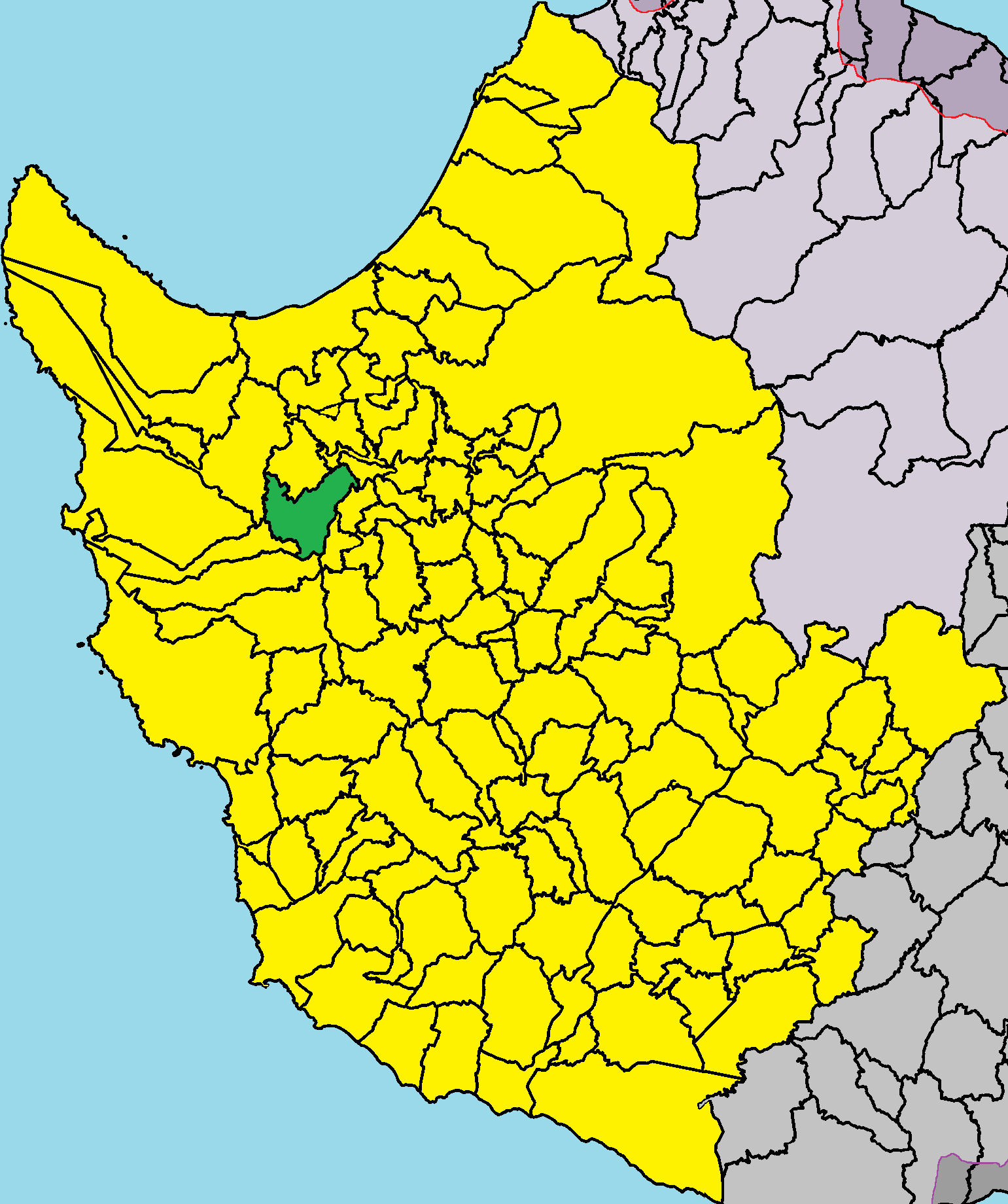 Kritou Terra in Paphos District.